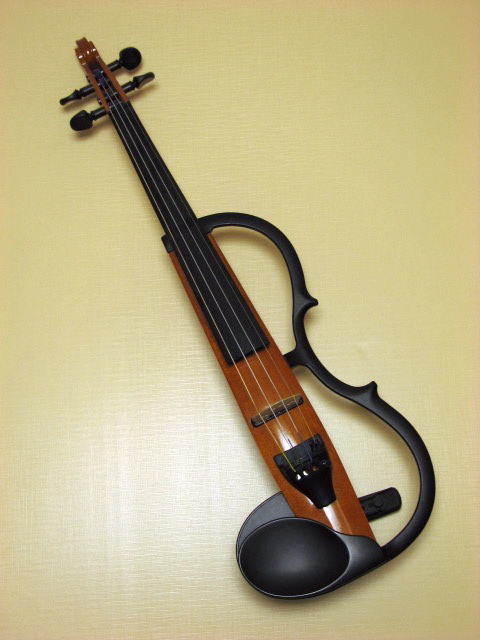 YAMAHA Silent Violin SV-100, Good Design Award 1997.